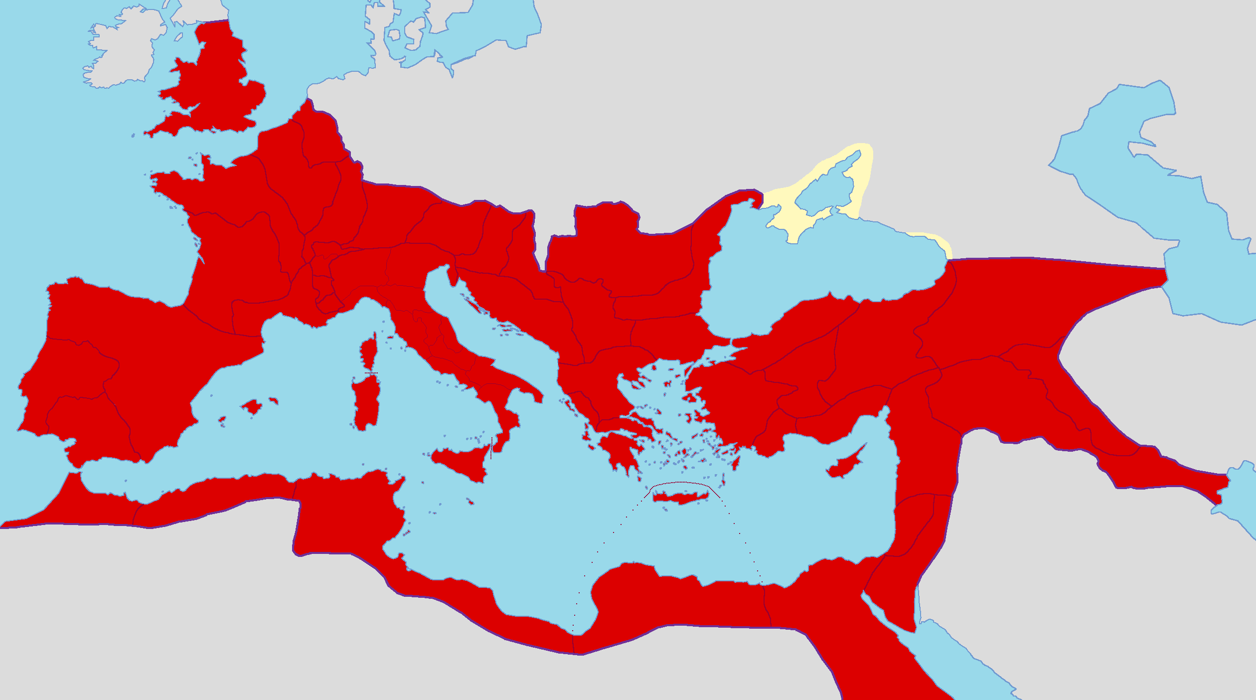 Map of the Roman Empire in 116 AD